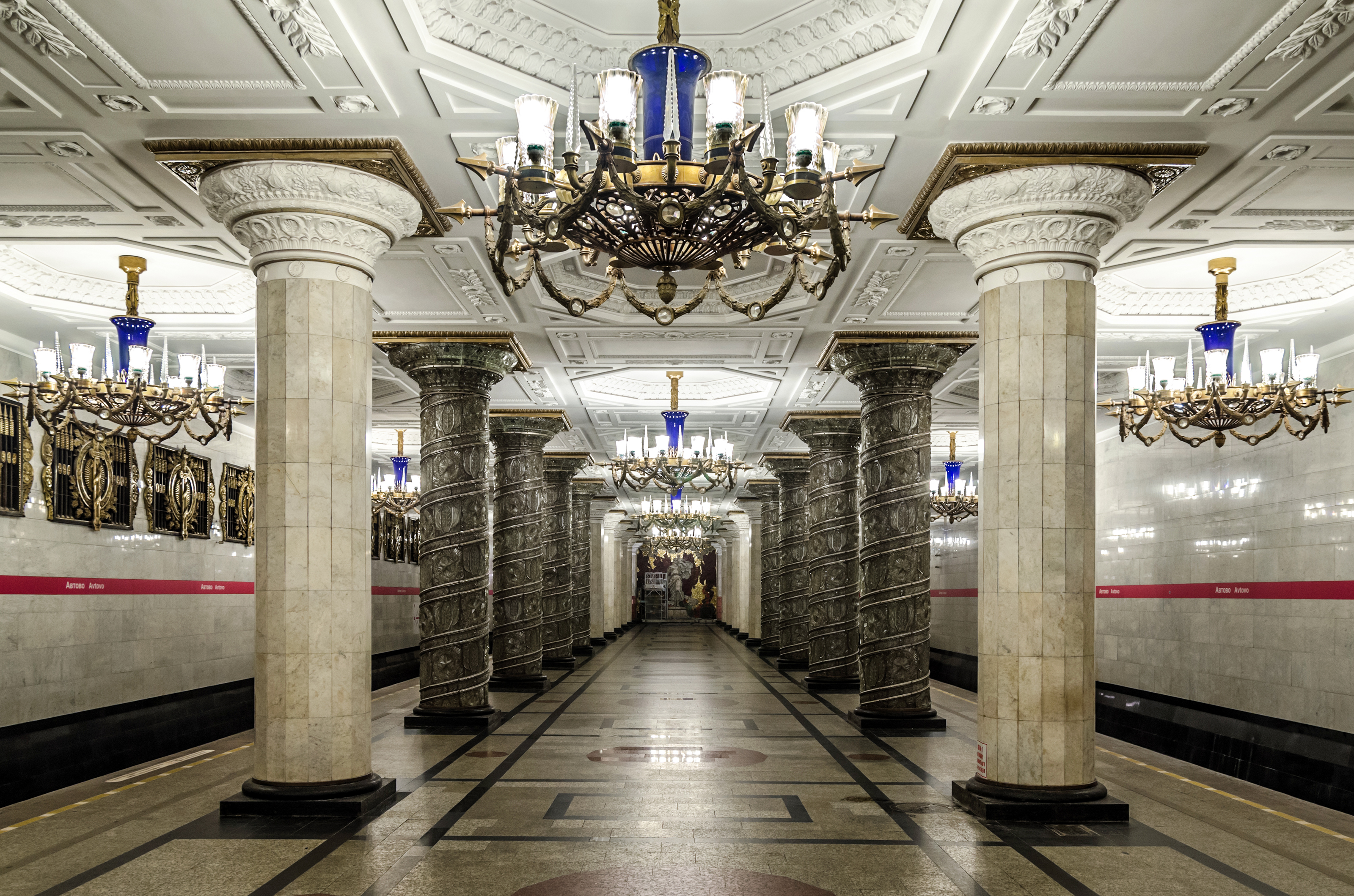 Avtovo station of Saint Petersburg Subway